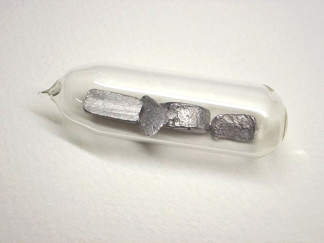 Thallium pieces in ampoule